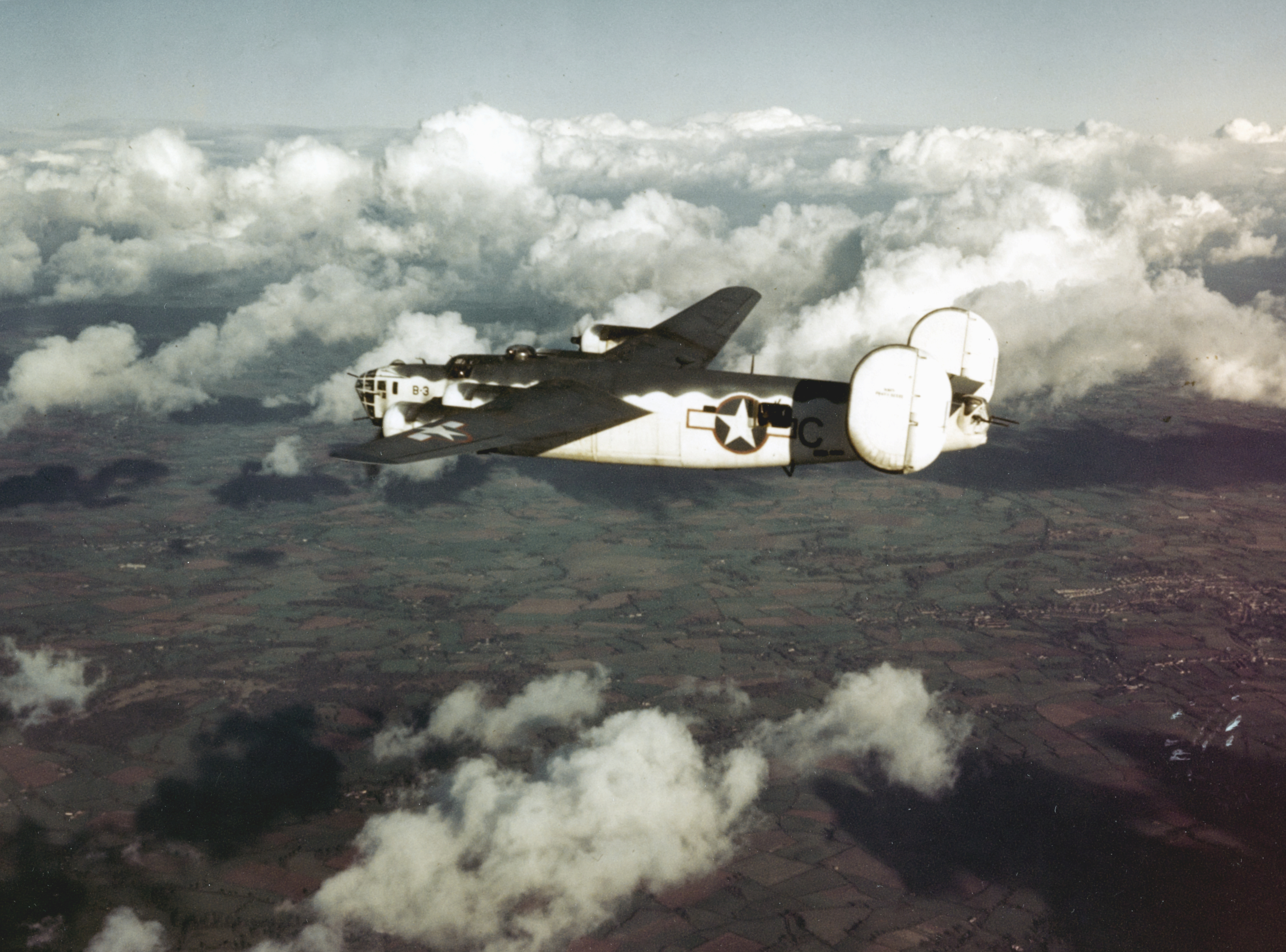 A U.S. Navy Consolidated PB4Y-1 Liberator of Bombing Squadron 103 (VB-103) en route to the Bay of Biscay in the summer of 1943. VB-103 began operating from St. Eval, Cornwall (UK), in August 1943.